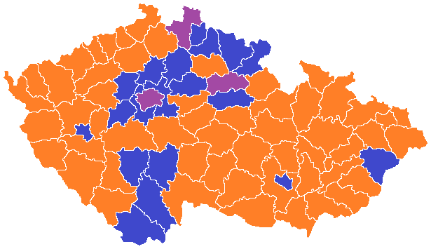 Elections to the Chamber of Deputies in 2010 - winning party by districts (blue ODS, orange ČSSD, purple TOP 09)